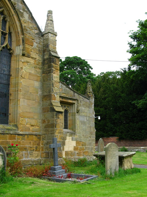 Canon John Hartley, Wimbledon Champion The blue marble grave of John Hartley and his wife Alice. John made history by becoming the only vicar to win the All England Lawn Tennis Championships at Wimbledon, in 1879 and 1880. He was runner up in 1881.